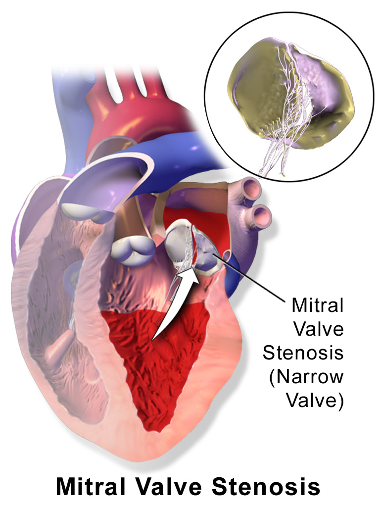 Mitral Valve Stenosis. See a related animation of this medical topic.